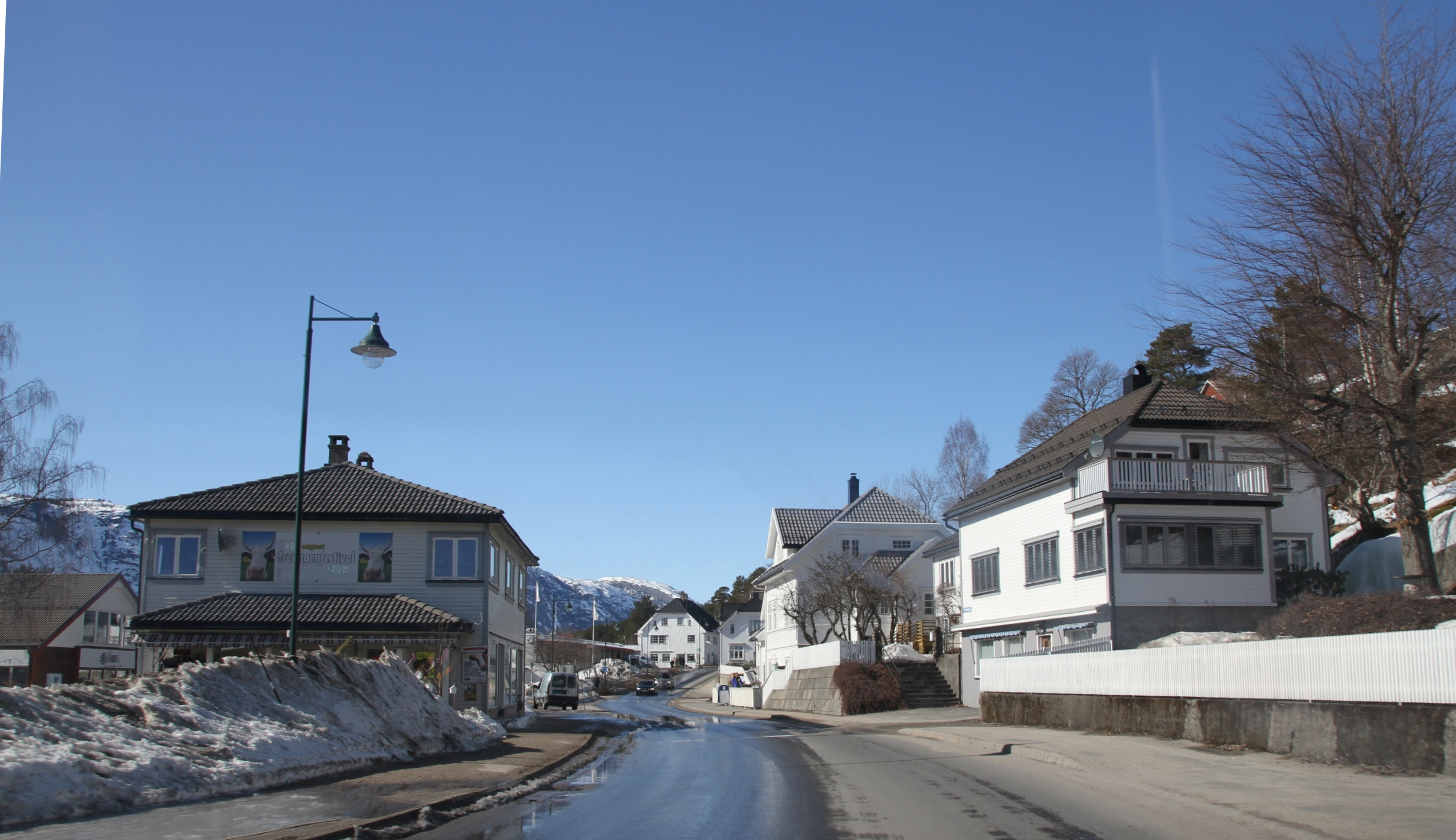 Image from the settled area of Treungen, around Treungen township - the center of Nissedal municipality, in Telemark county, Norway